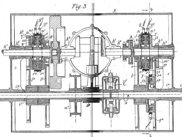 engineering drawing of electromagnetic gears